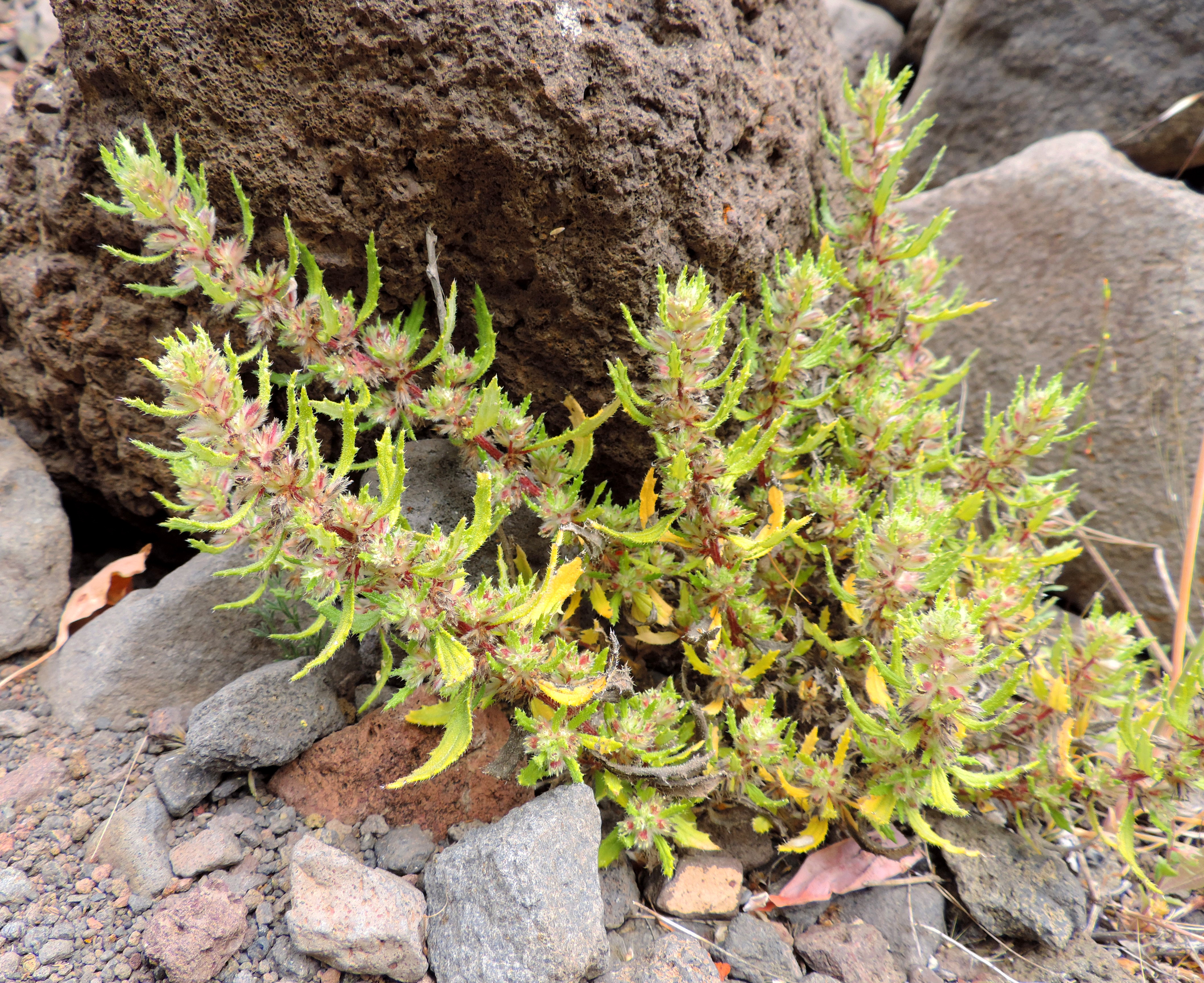 Forsskaolea angustifolia in Barranco de Guayadeque (Gran Canaria)